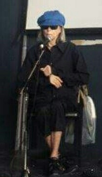 Annette Peacock photographed in Montréal, Québec, Canada at the Pop Montréal Festival.